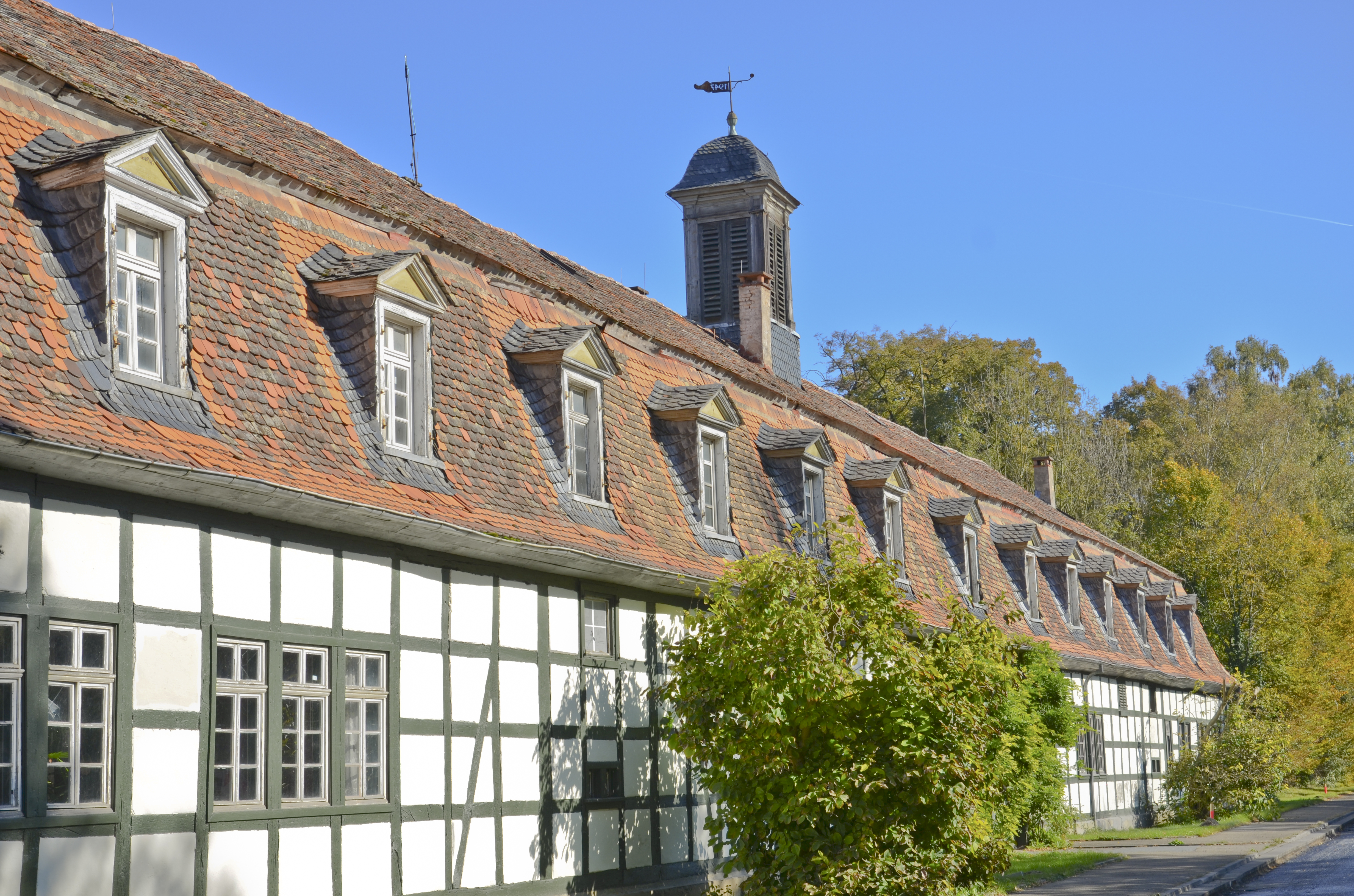 Hunting lodge Moenchbruch, Hesse, Germany.